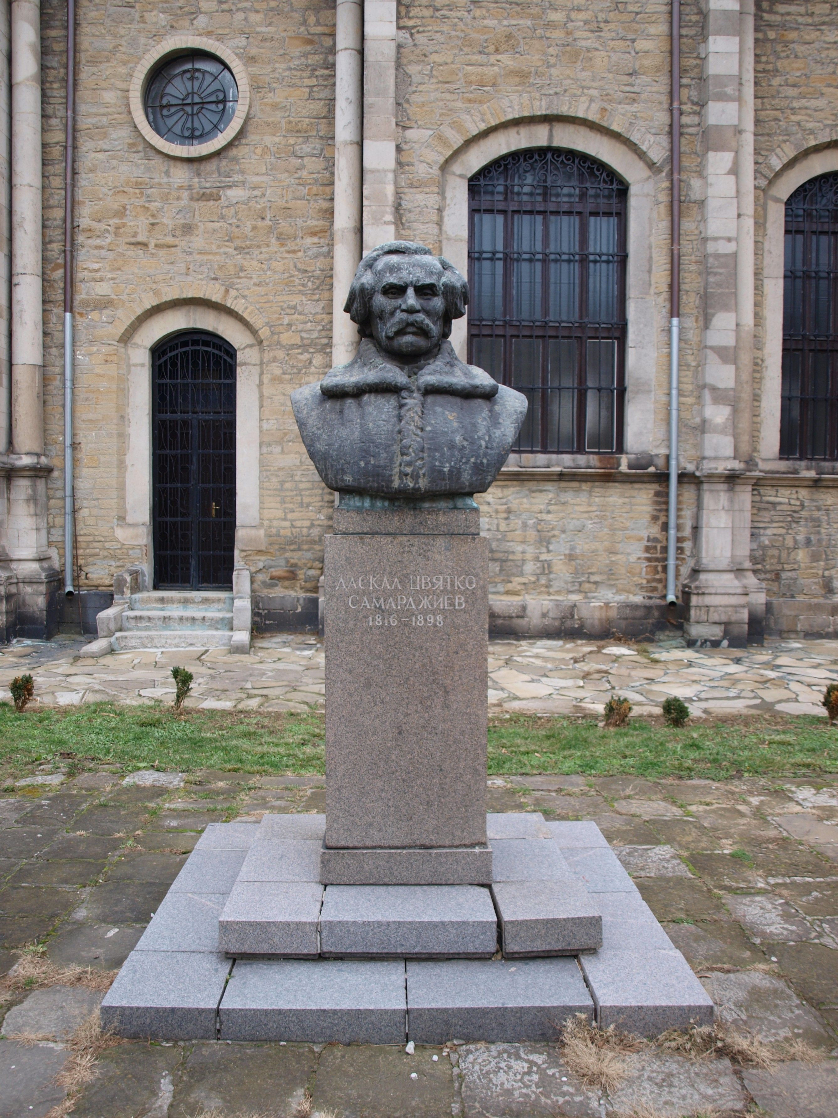 The monument of the prominent teacher (daskal) Tzvyatko Samardjiev in Gabrovo, Bulgaria.